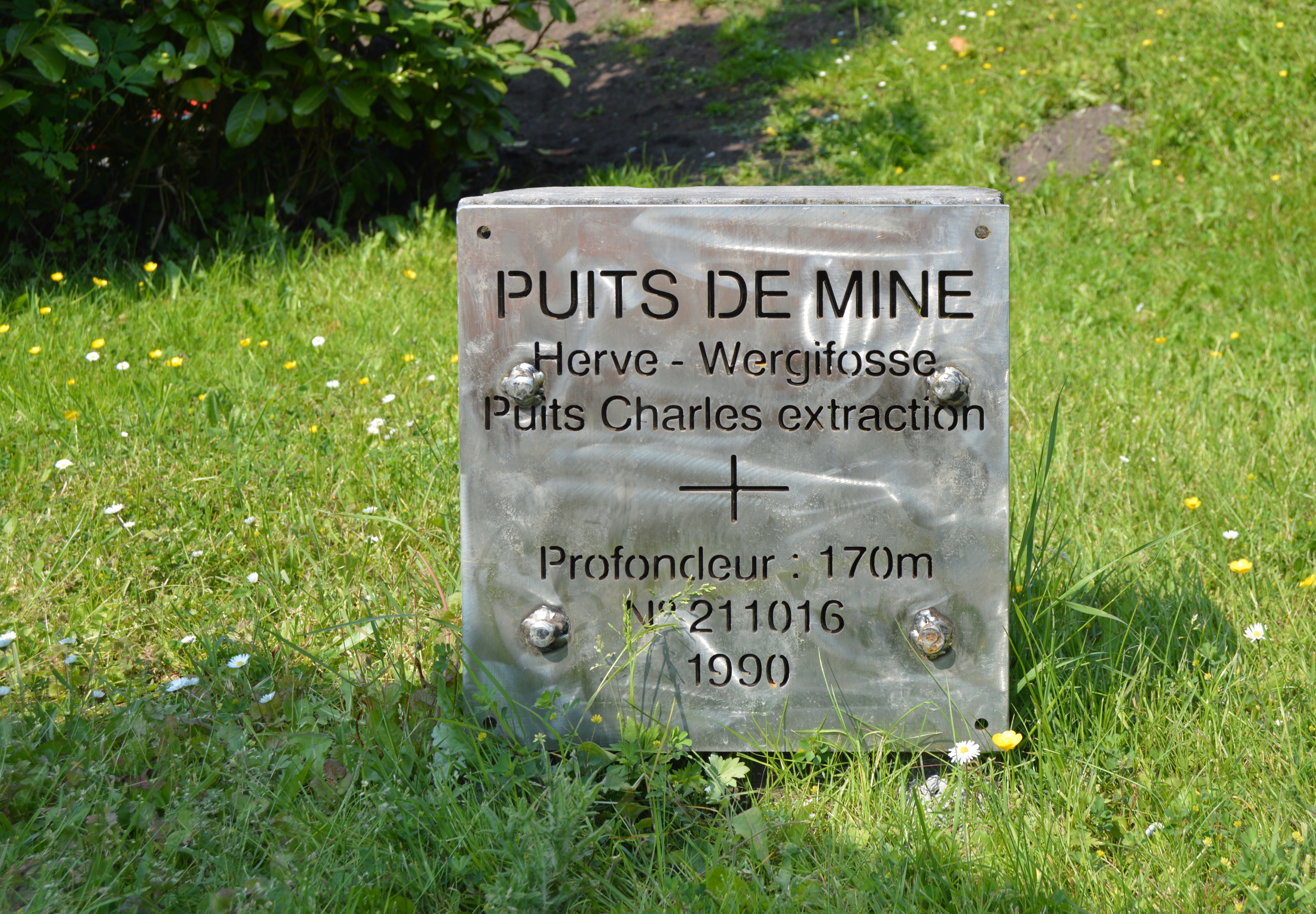 Ancient pit Charles in Herve, Belgium